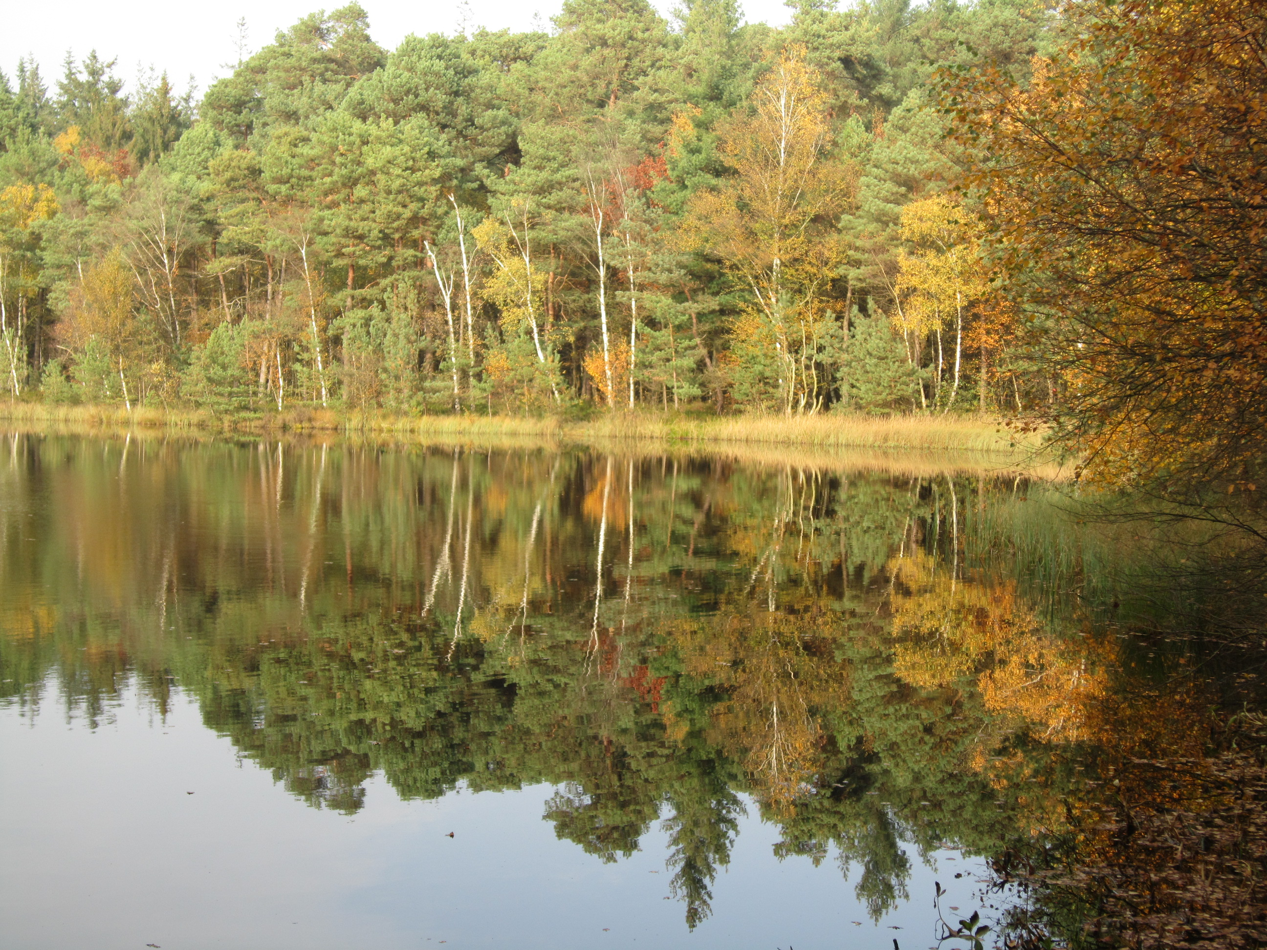 Lake "Dianasee" in "Baumweg" State Forest (community of Emstek)